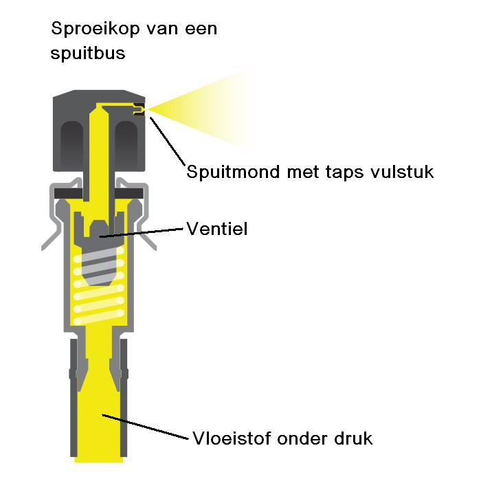 Top of aerosol spray-can